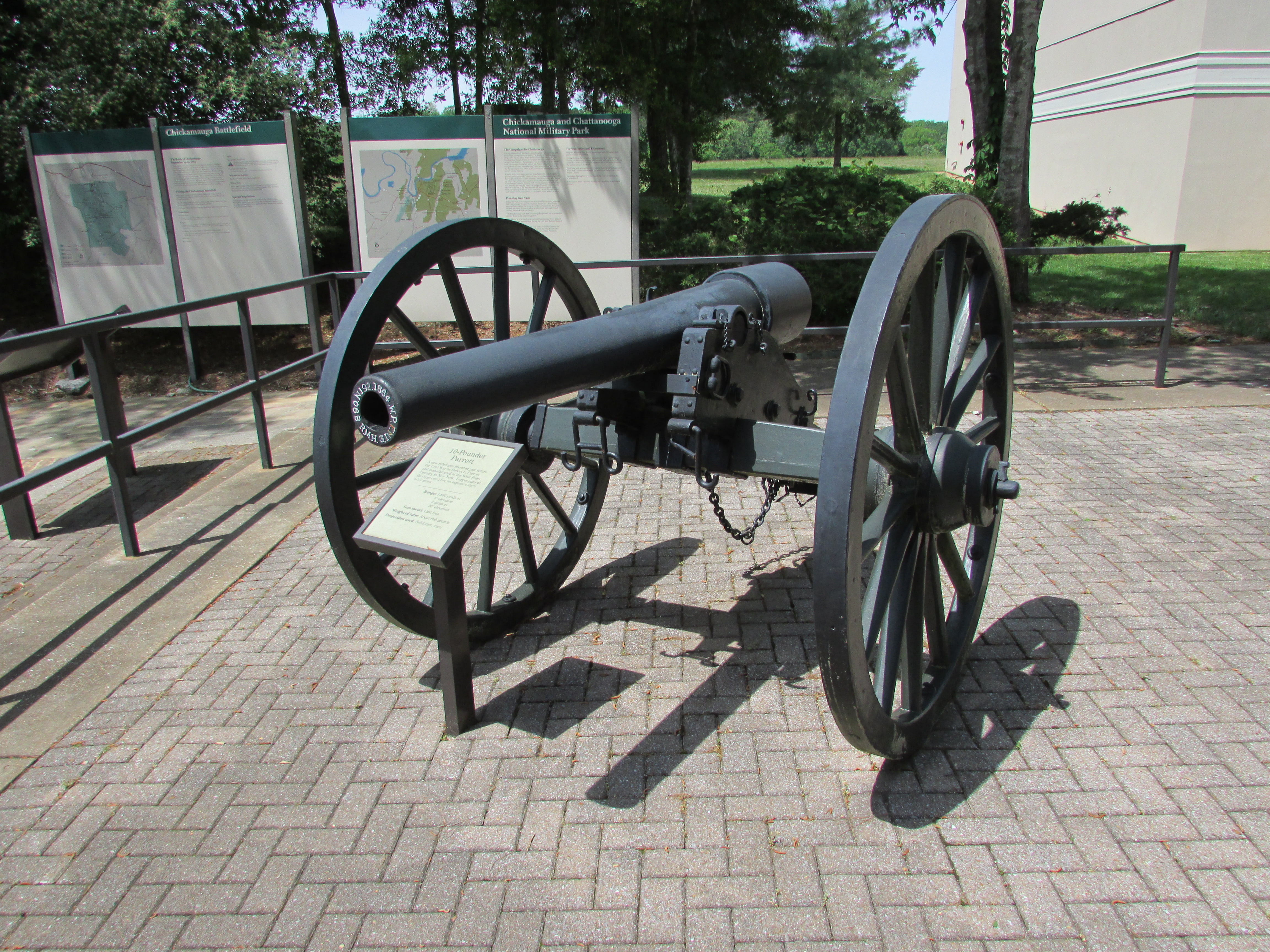 10 Pounder Parrott Rifle on display outside the Chickamauga Battlefield Visitors Center.